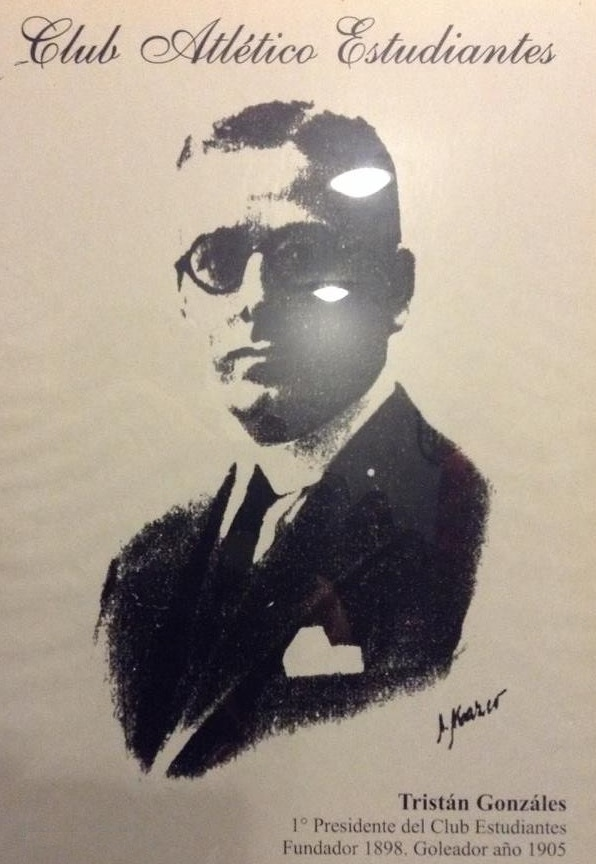 Tristan Gonzáles 1898 Estudiantes first president.